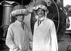 Paul Kipfer and August Piccard prepare to enter the stratosphere in a pressurized gondola lifted by a hydrogen filled balloon